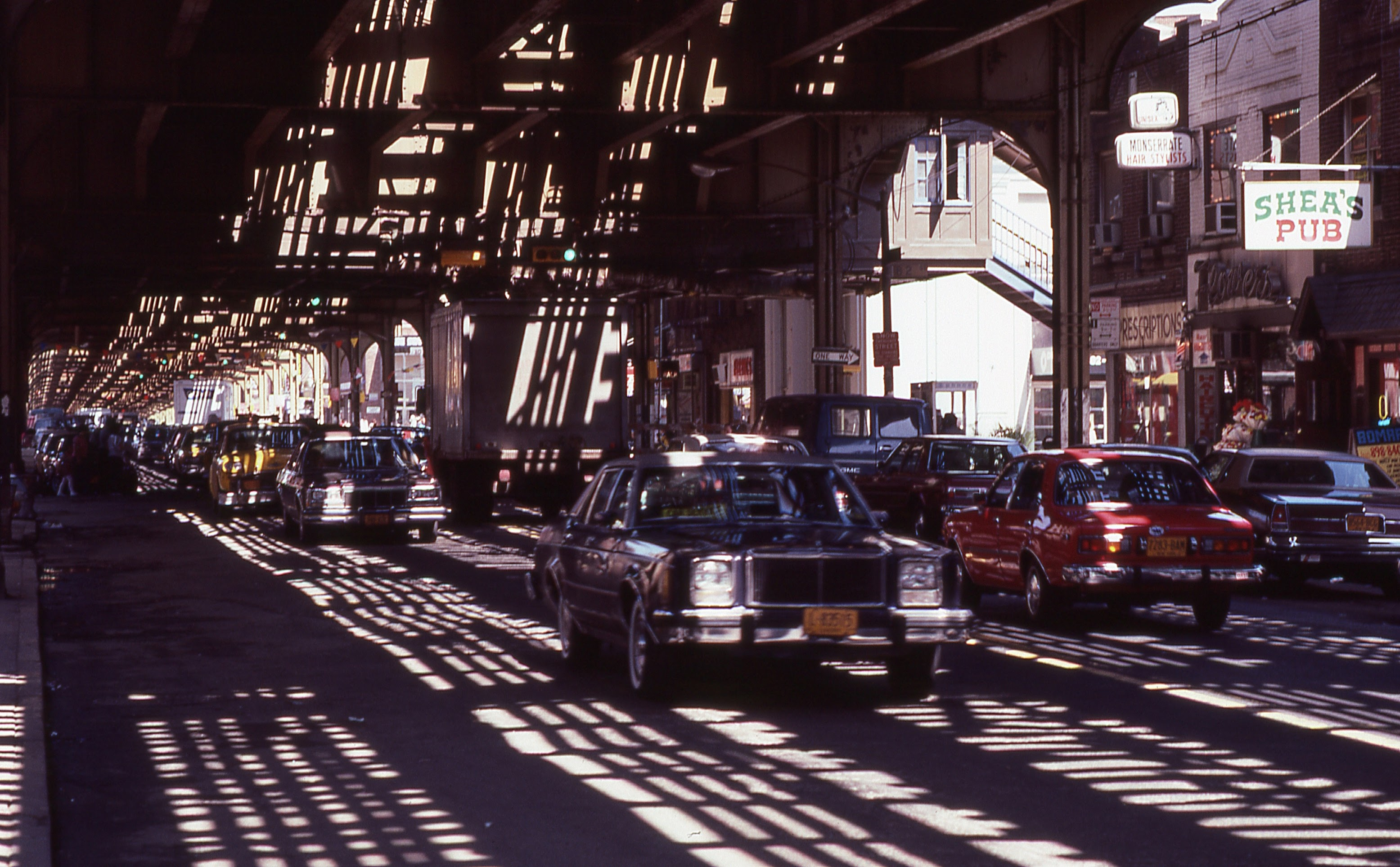 Traffic on Roosevelt Avenue in Jackson Heights, Queens, New York City under the elevated Number Seven NYC Transit rail line in the 1980s